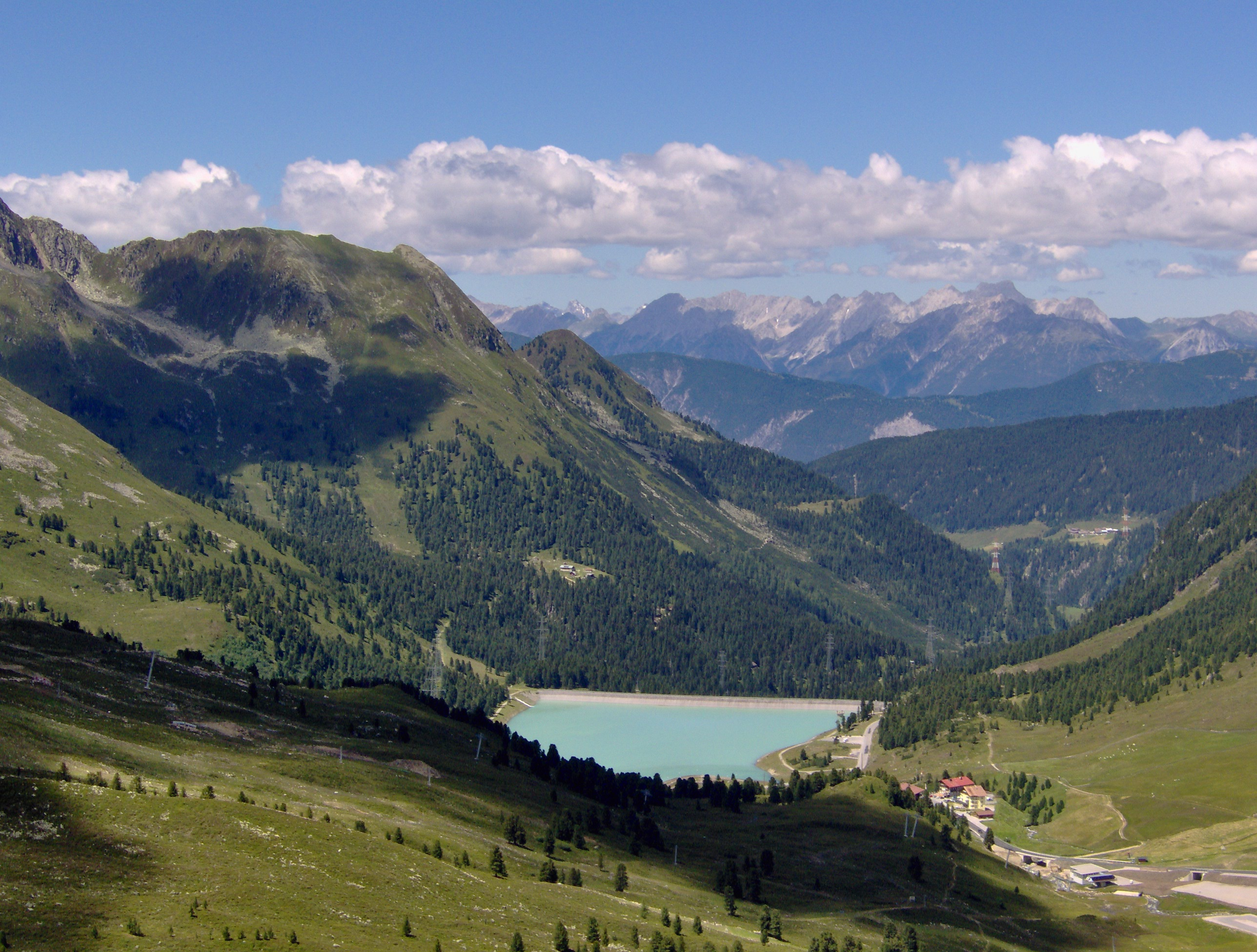 The reservoir Speicher Längental near Kühtai, Tirol, Austria